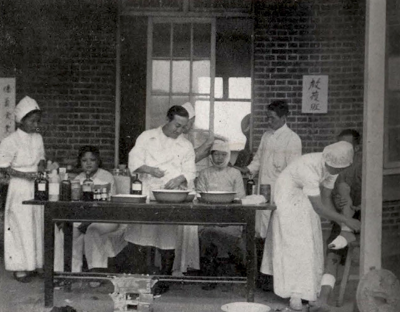 Relief team of Red Cross in Seisuigai (1935 Taichu-Shinchiku earthquake)